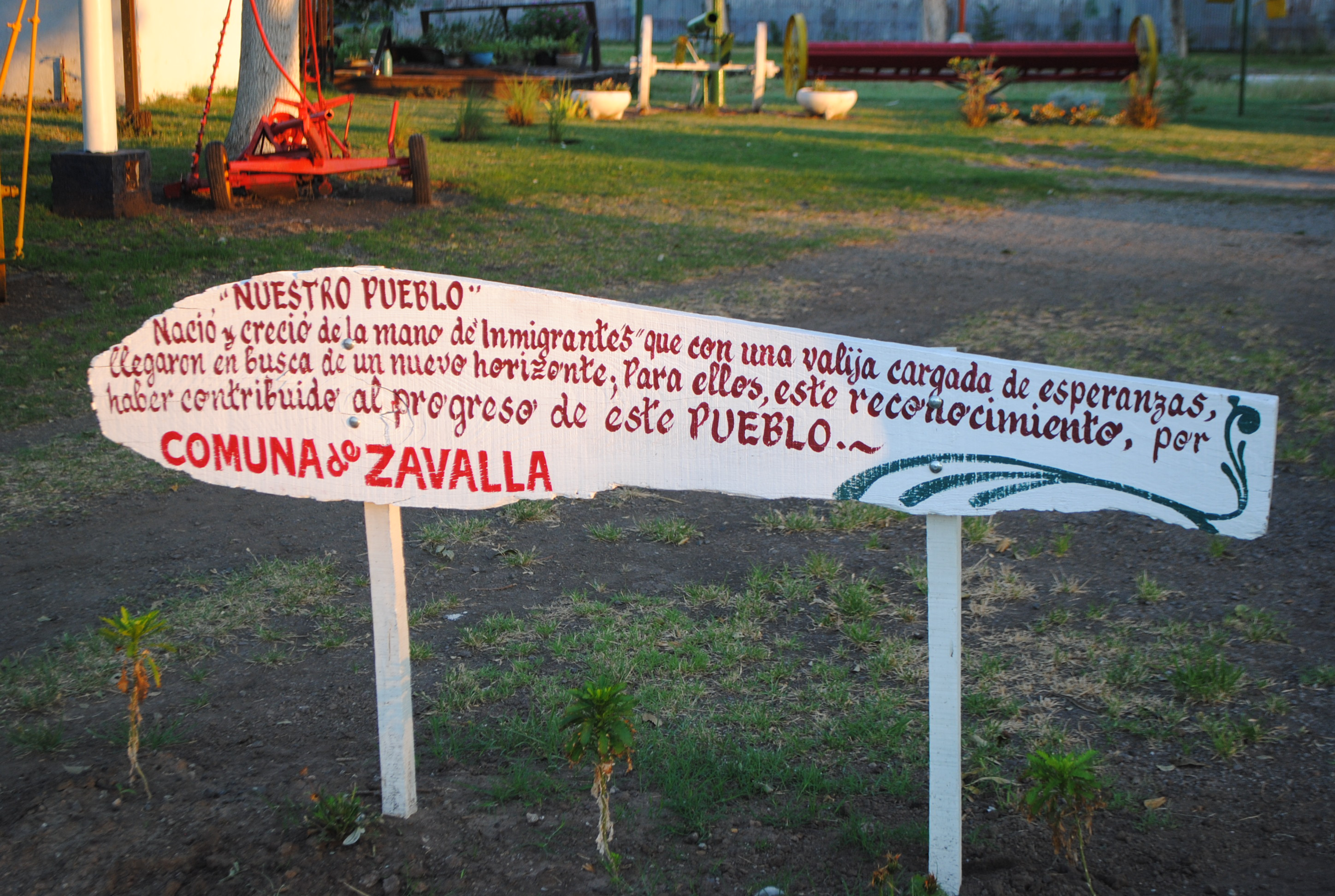 Old Agricultural and rail Museum at Zavalla, Santa Fe province, Argentina